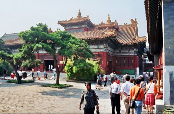 Yonghe Lamasery, Beijing, China Own photo, from website. More at